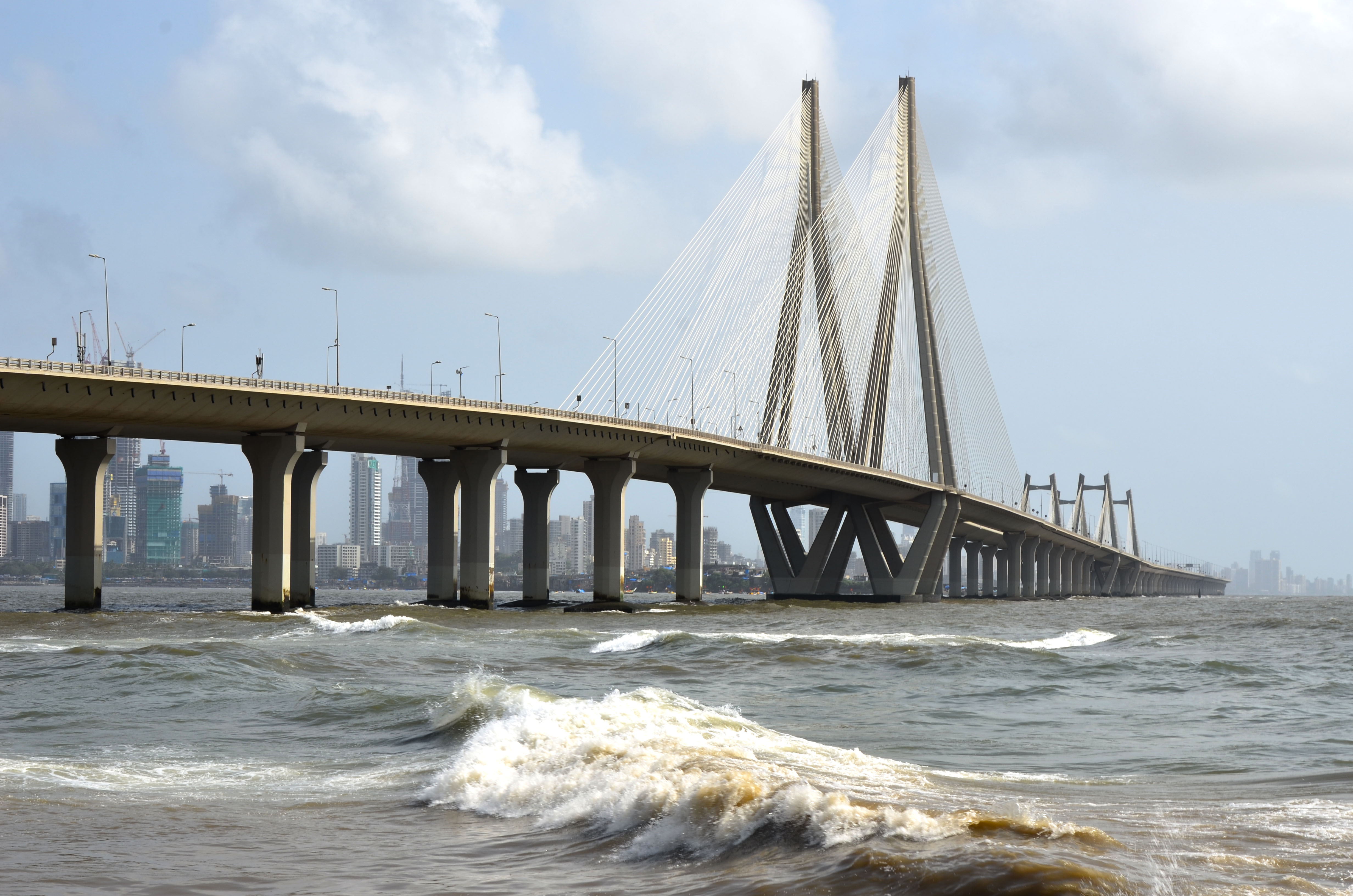 Bandra Worli Sea link as clicked from the Bandra Fort